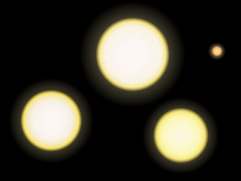 This diagram illustrates, from left to right, the relative size of the Sun, α Centauri A, α Centauri B and Proxima Centauri.